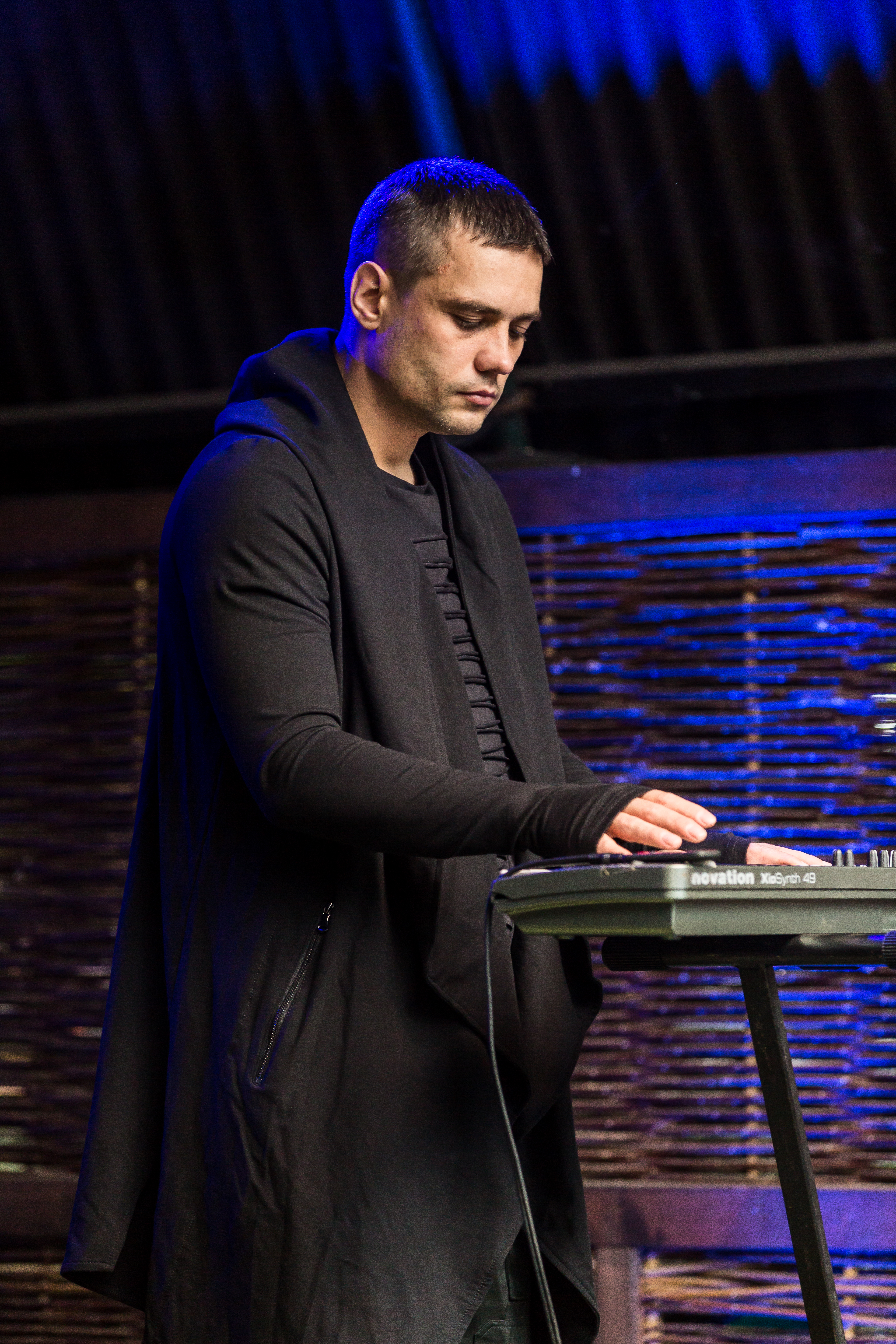 The Russian dark wave band Otto Dix at the Nocturnal Culture Night 12 2017 in Deutzen/Germany.